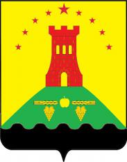 Coat of arms of Dukmasov municipality (Adygea)